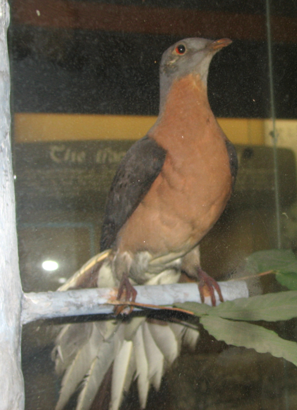 Ectopistes migratorius, Cincinnati Zoo and Botanical Garden. Passenger Pigeon Memorial at Cincinnati Zoo